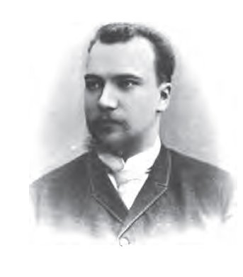 This file is from Google Library